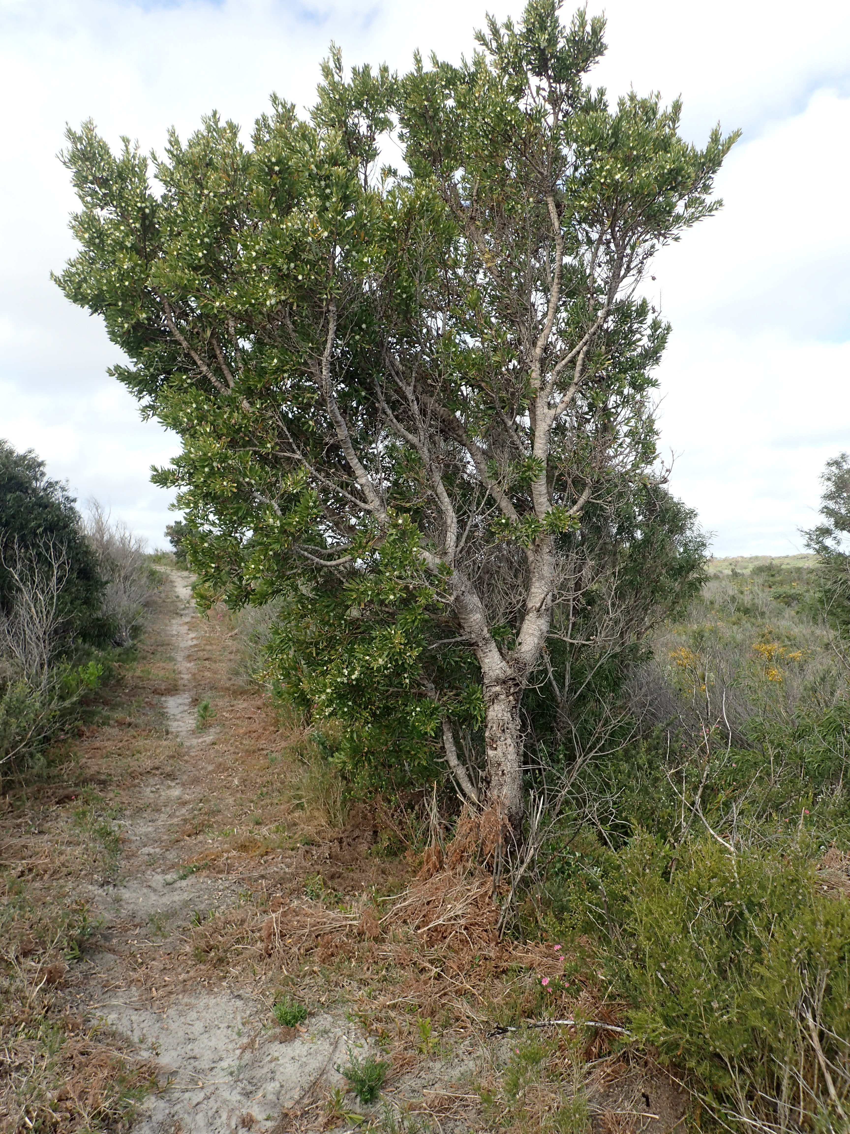 Hakea oleifolia growing along the Bibbulmun Track a few kilometres from Mandalay Beach near Walpole